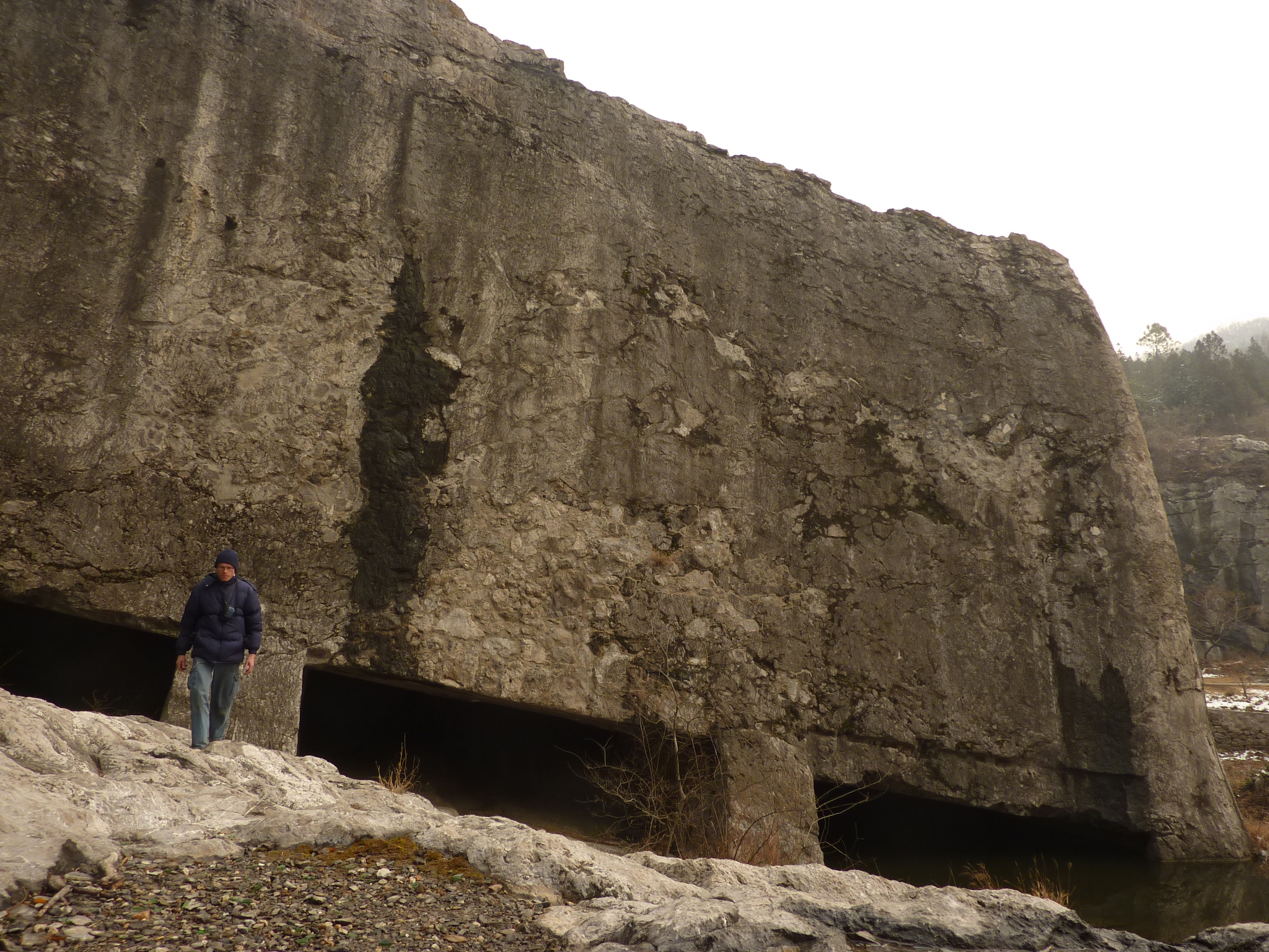 The unfinished base of the giant stele, with a hiker next to it for scale, located at the NE end of the southwestern pit of the Yangshan Quarry. One can see in the photos how the giant piece of rock has been parially separated from the mountain by digging under it.